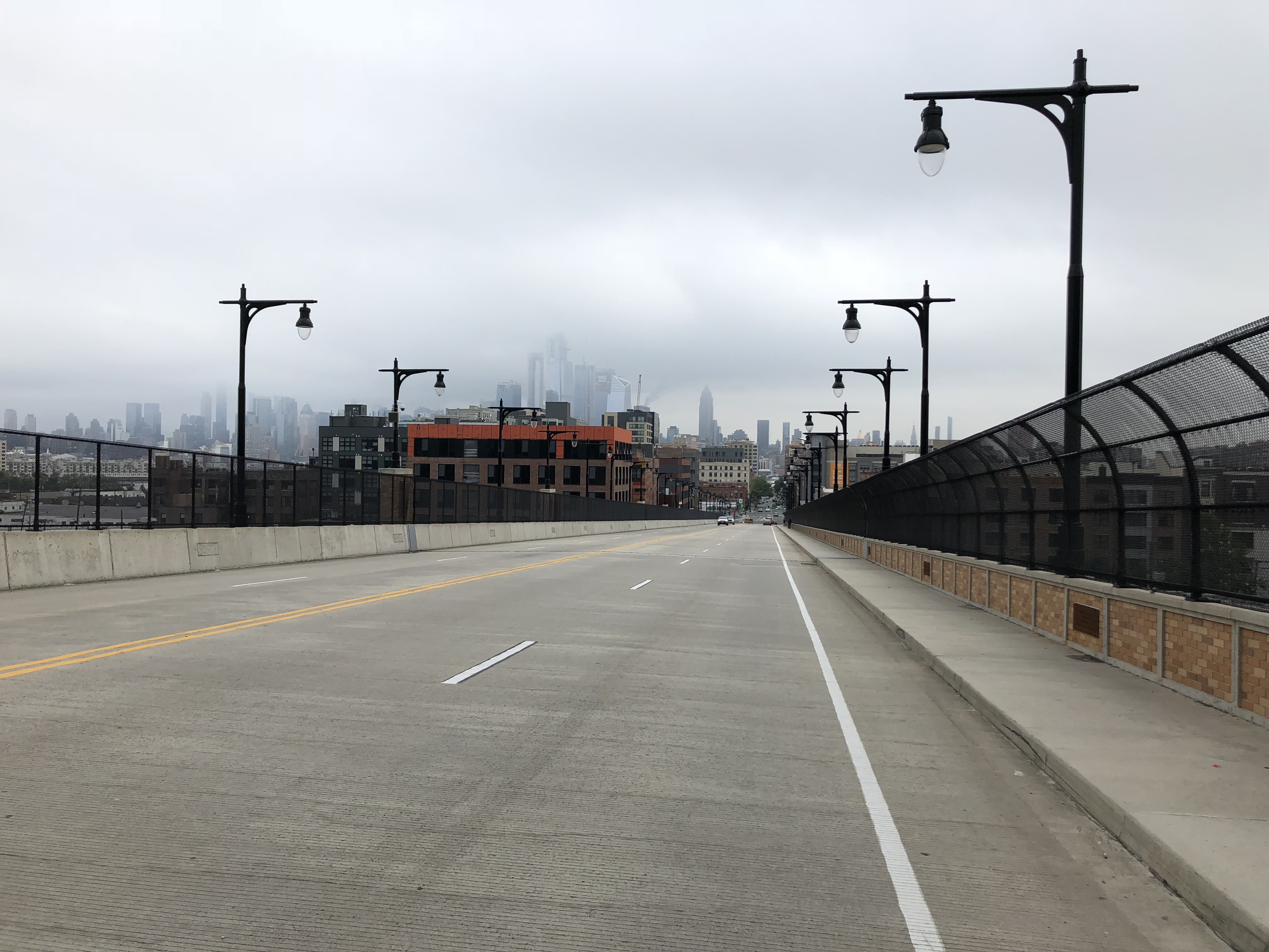 View east along Hudson County Route 670 (14th Street Viaduct) between Hudson County Route 683 (South Wing Viaduct) and Willow Avenue in Hoboken, Hudson County, New Jersey